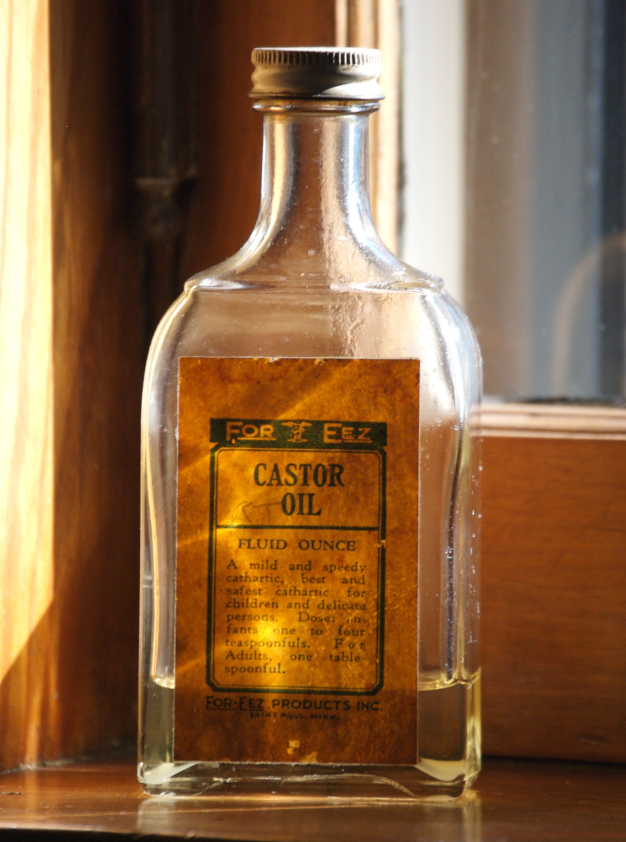 A bottle of castor oil sitting on the window sill of the bathroom in the Keeper's house at Split Rock Lighthouse.